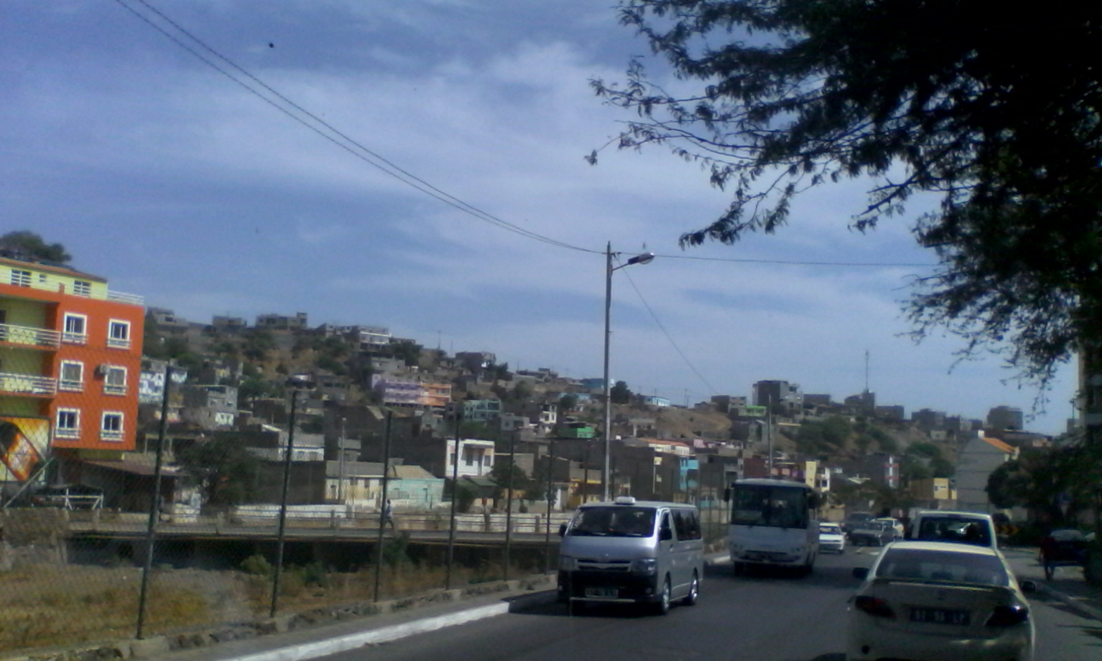 Safende neighborwood